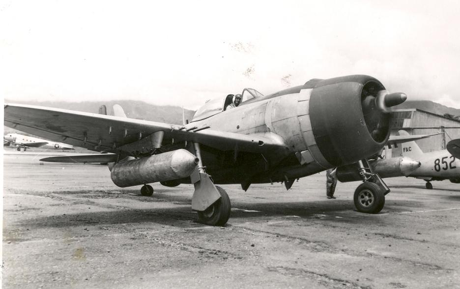 The F-47D Thunderbolt (P-47) was acquired from the United States by the Colombian Air Force one year after the Second World War and entered service in 1947. It is capable of carrying three 500-pound bombs at low levels or 18 rockets. It was retired in 1957.